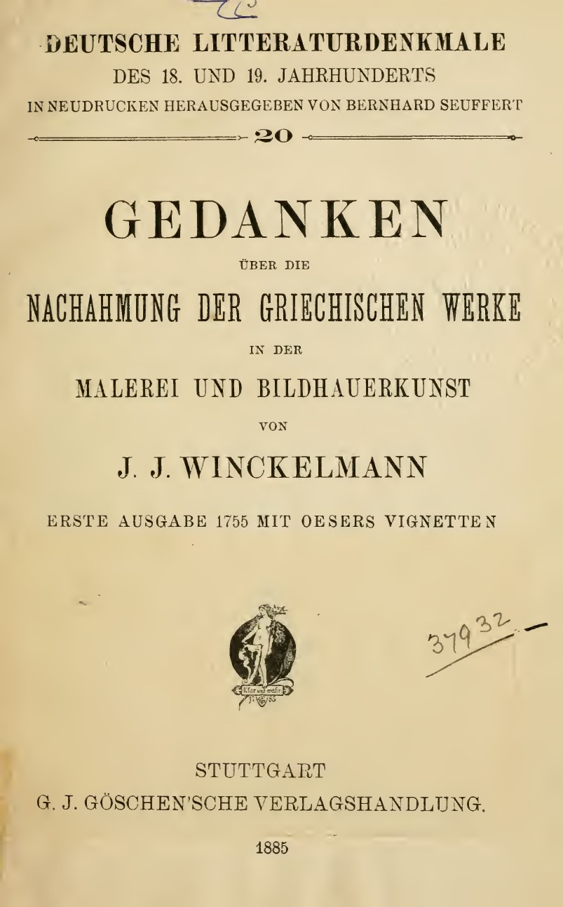 Title page